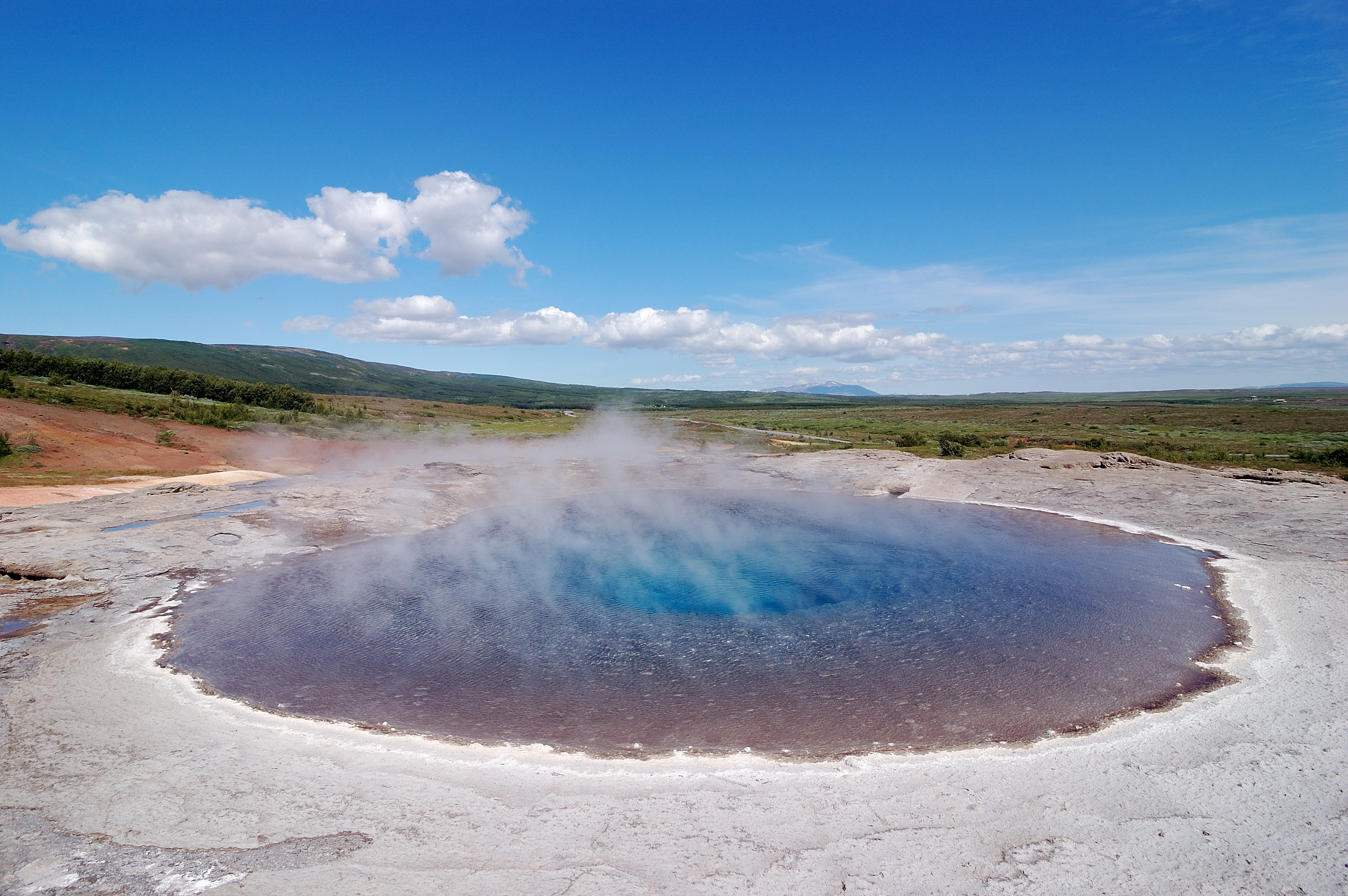 Blesi, Geysir geothermal field, Iceland [2008]